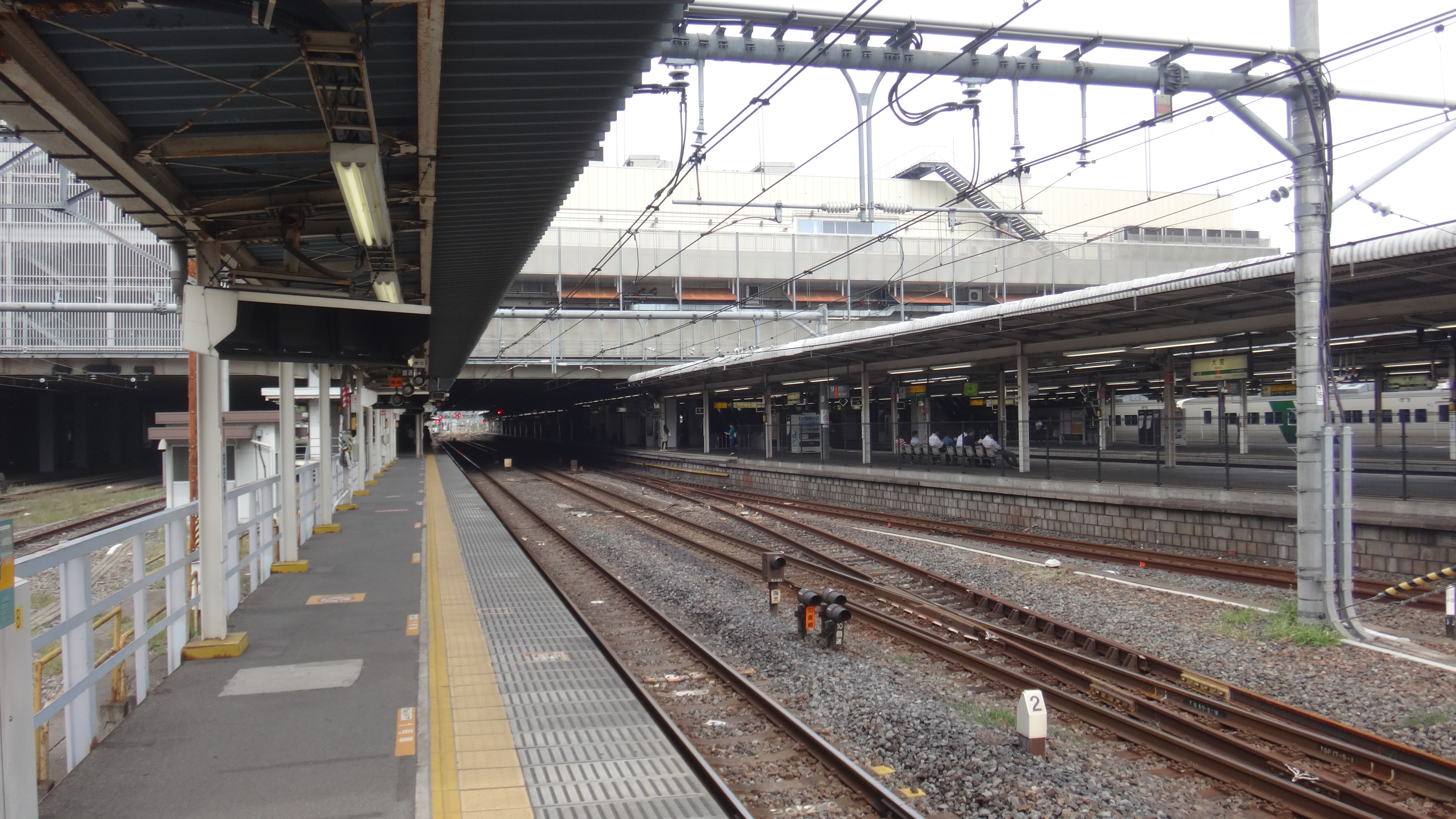 The view from the south end platform 11 at Omiya Station in Saitama Prefecture, Japan